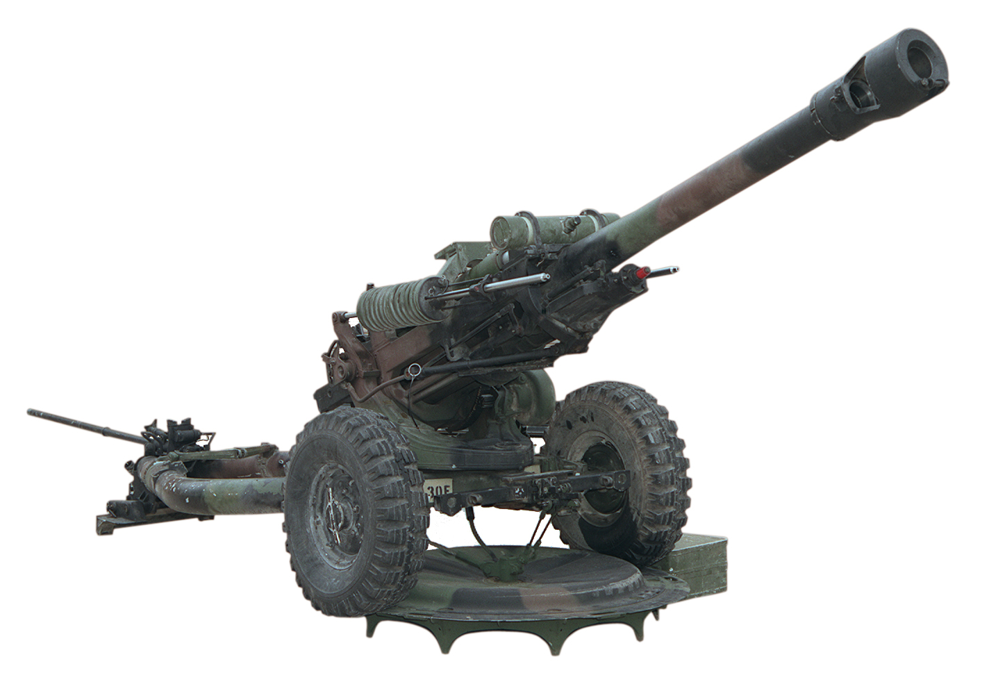 M119 howitzer, trimmed